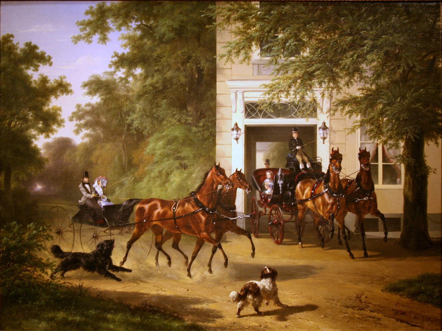 Oil on canvas painting showing August Belmont in a horse carriage with a girl (Caroline Slidell Perry Belmont?) by his side and in a second carriage a woman (Isabel Perry?); original size without frame 91.4×124.5 cm.